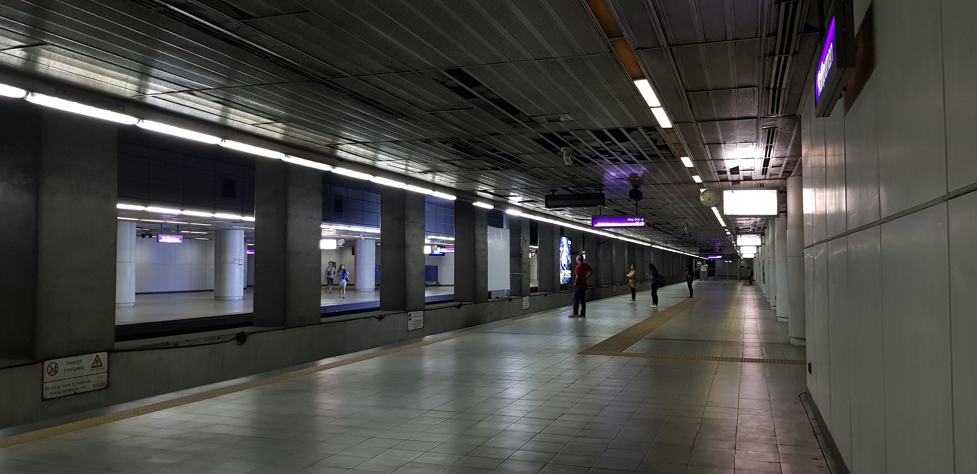 Line 2 Katipunan Station Platform